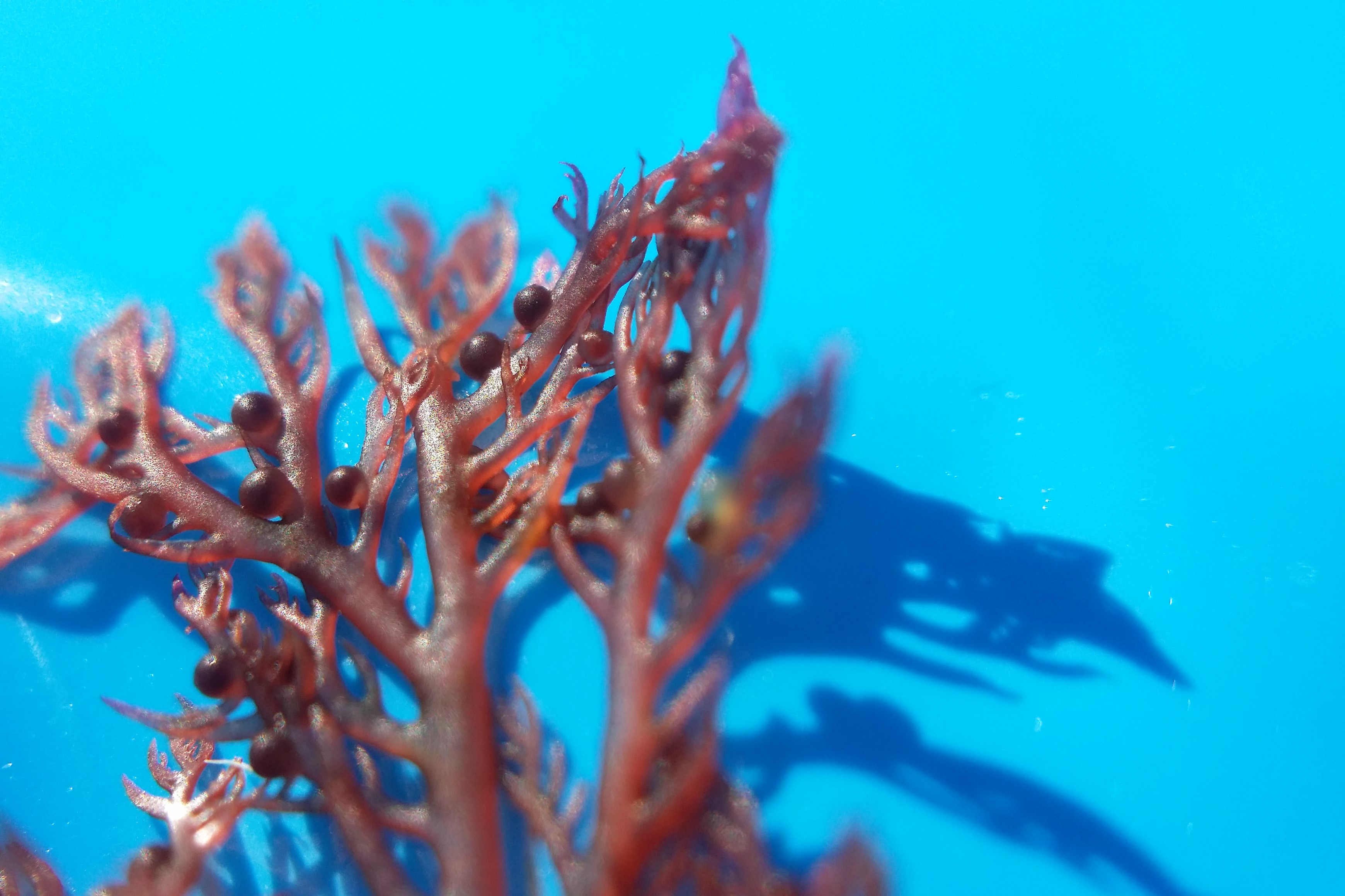 Apical parts of a thalli of the red seaweed Plocamium cartilagineum, with female reproductive structures (cystocarps) visible. This specimen was observed in Llanes (Asturias, Spain).